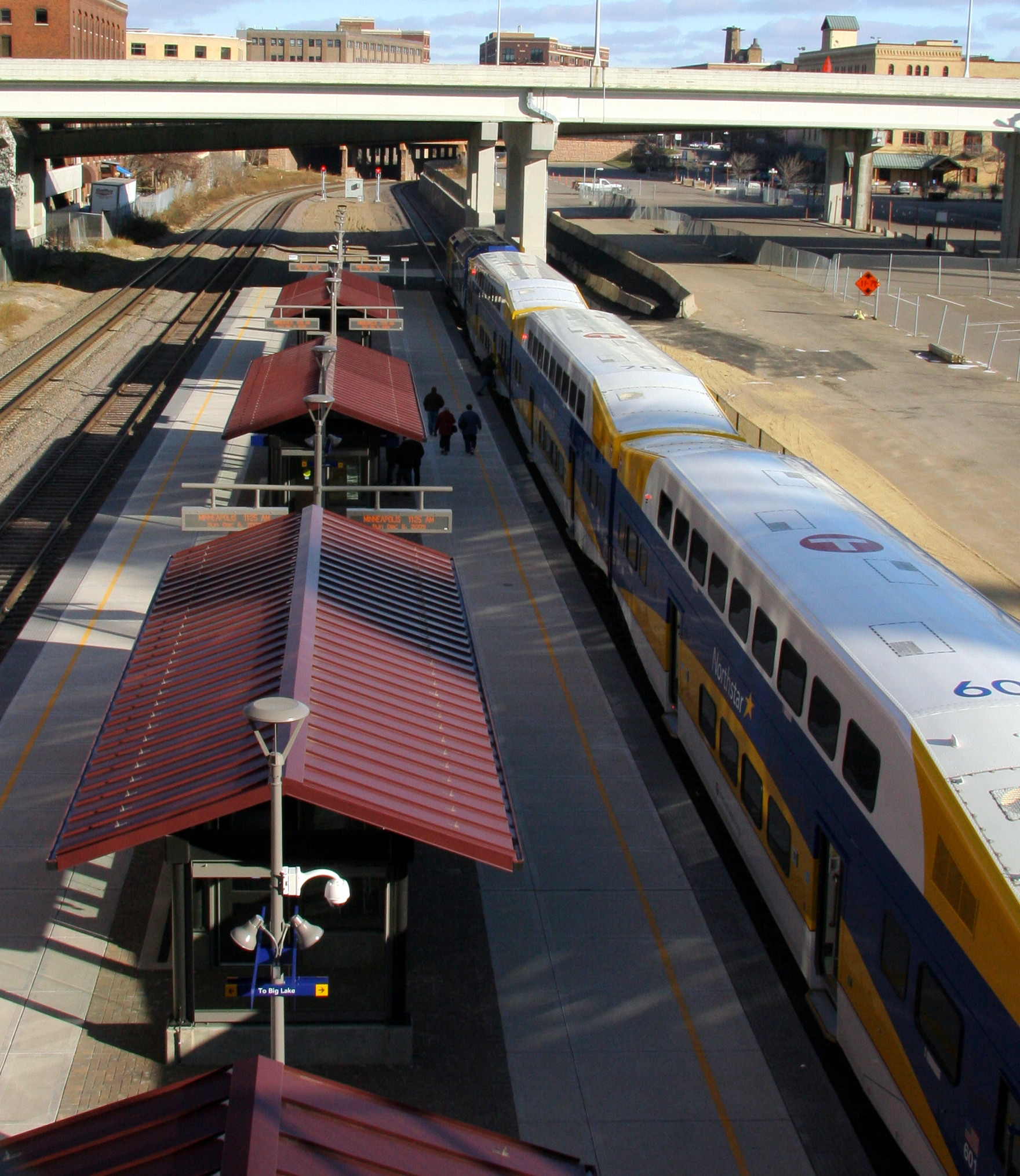 Northstar Commuter Rail platform at Target Field (Metro Transit station) in Minneapolis, Minnesota